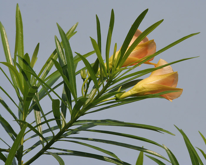 Yellow Oleander Thevetia peruviana in Kolkata, West Bengal, India.